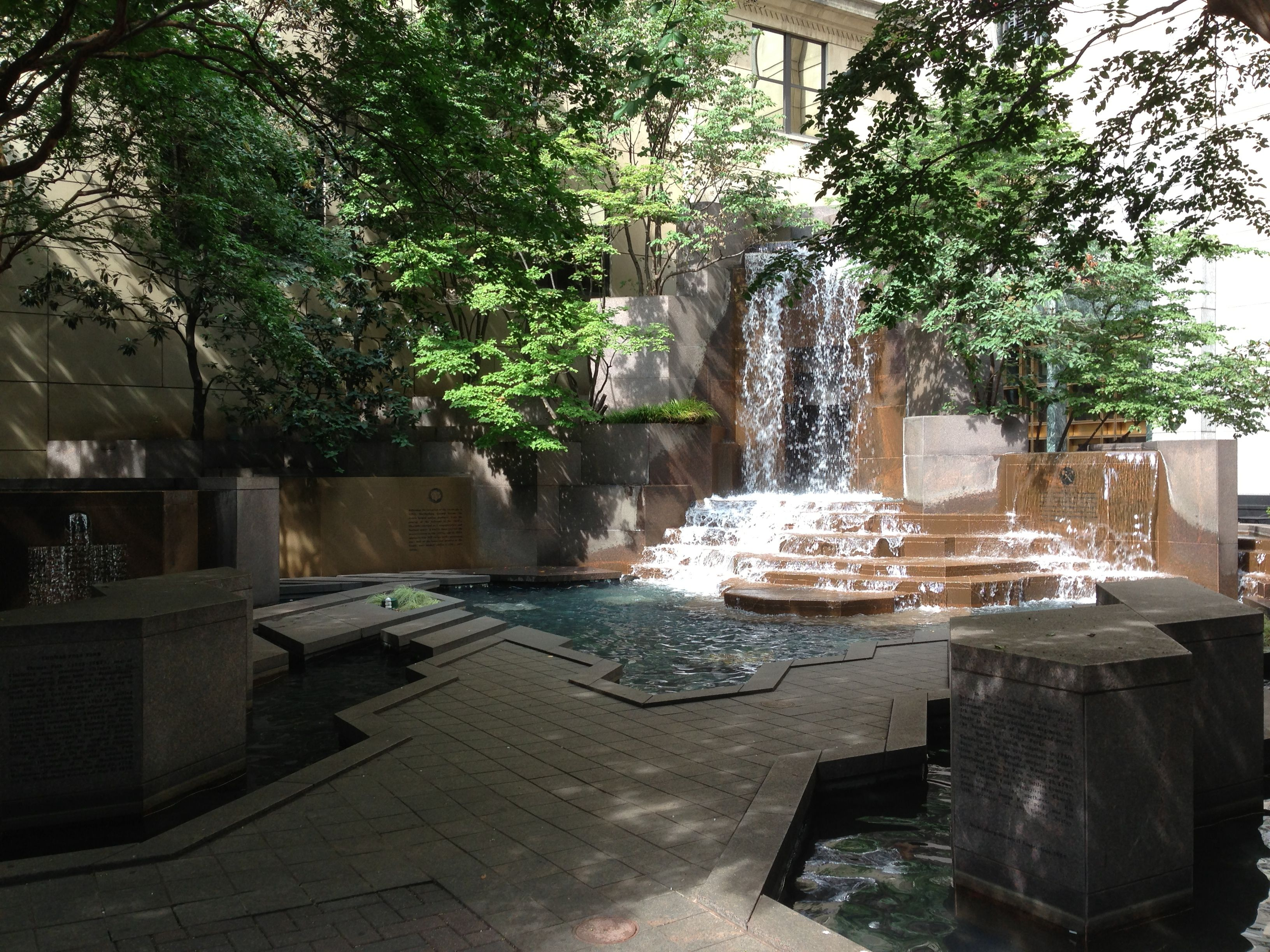 30-foot cascading waterfall at Thomas Polk Park in Charlotte, North Carolina.